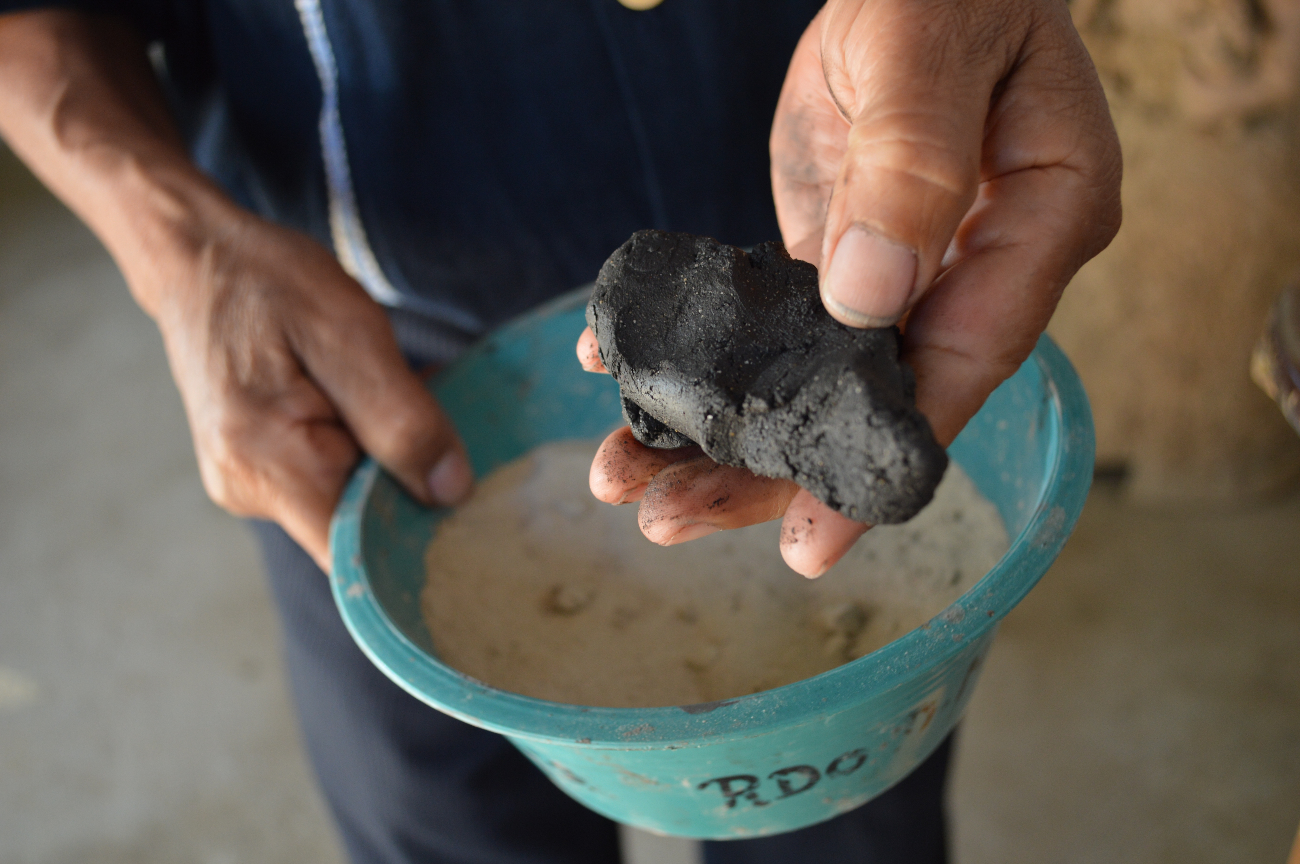 Luis Garcia Blanco demonstrating the clay he uses at the family workshop in Santa Maria Atzompa, Oaxaca, Mexico